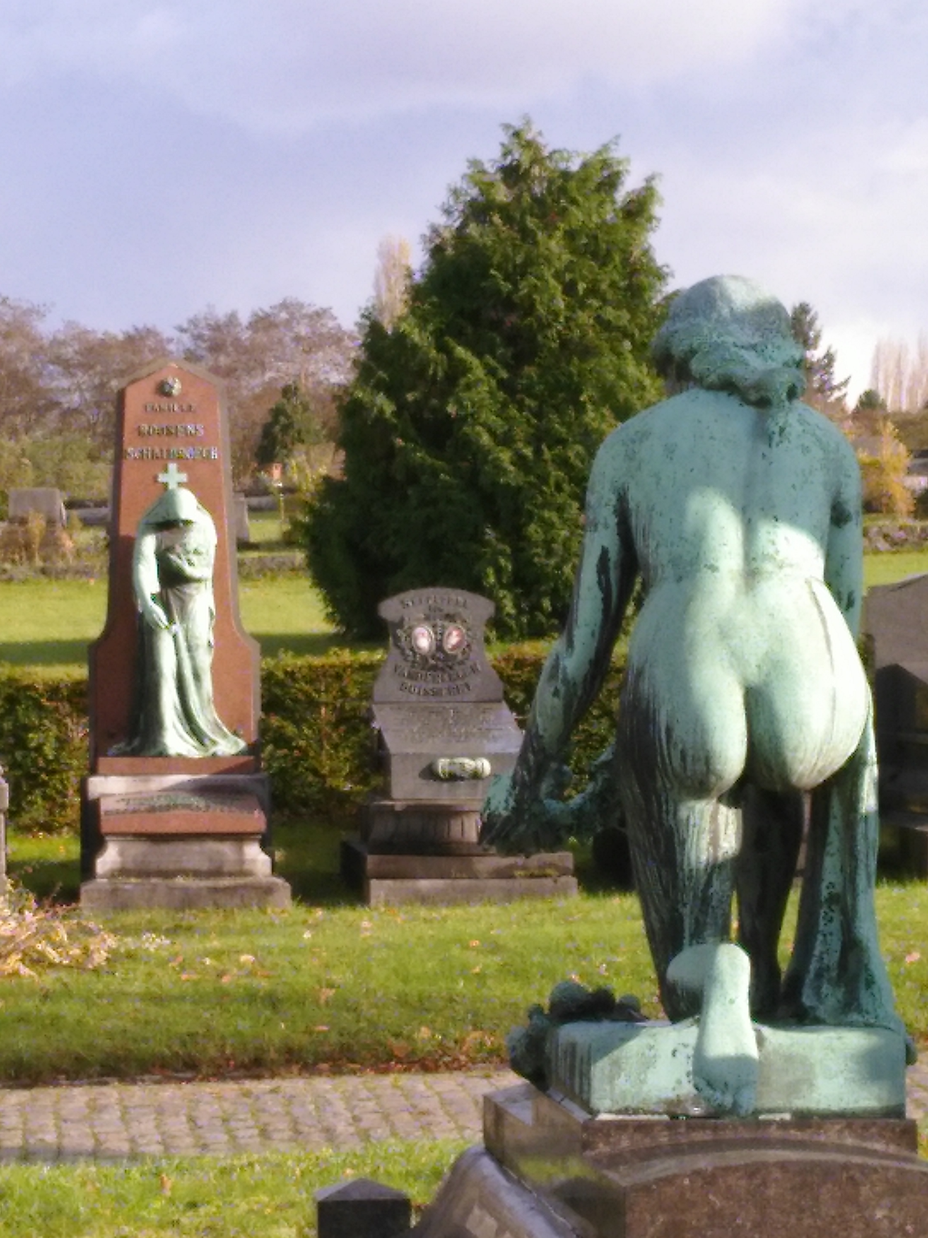 Cemetary of Saint-Gilles, Brussels.